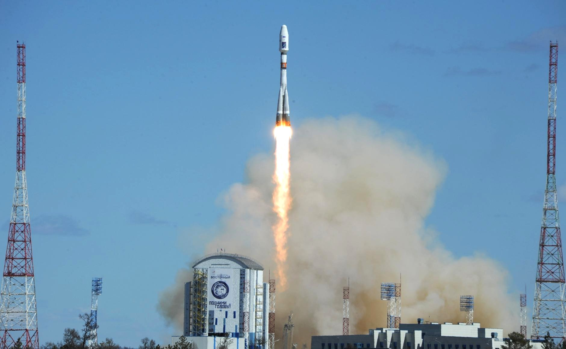 Launch of the Soyuz-2.1a from Vostochny Cosmodrome. There is also Yuri Gagarin's face and slogan "Raise your head!" to commemorate the 55th anniversary of Gagarin's flight visible on the photo.